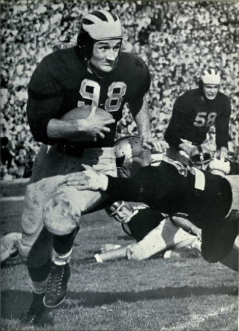 Photograph of University of Michigan athlete Tom Harmon